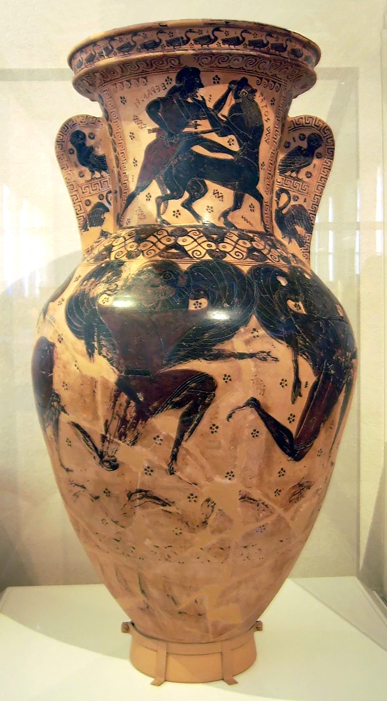 Attic black-figure eponymous (amphora) vase of the Nessos Painter; Perseus already departed while the beheaded Medusa collapses on the ground, her Sisters Sthele and Euryale fly above the sea in pursuit of Perseus. For head image see detail image; found at a tomb in Pireaos Str. in Athens; about 620/610 BC.